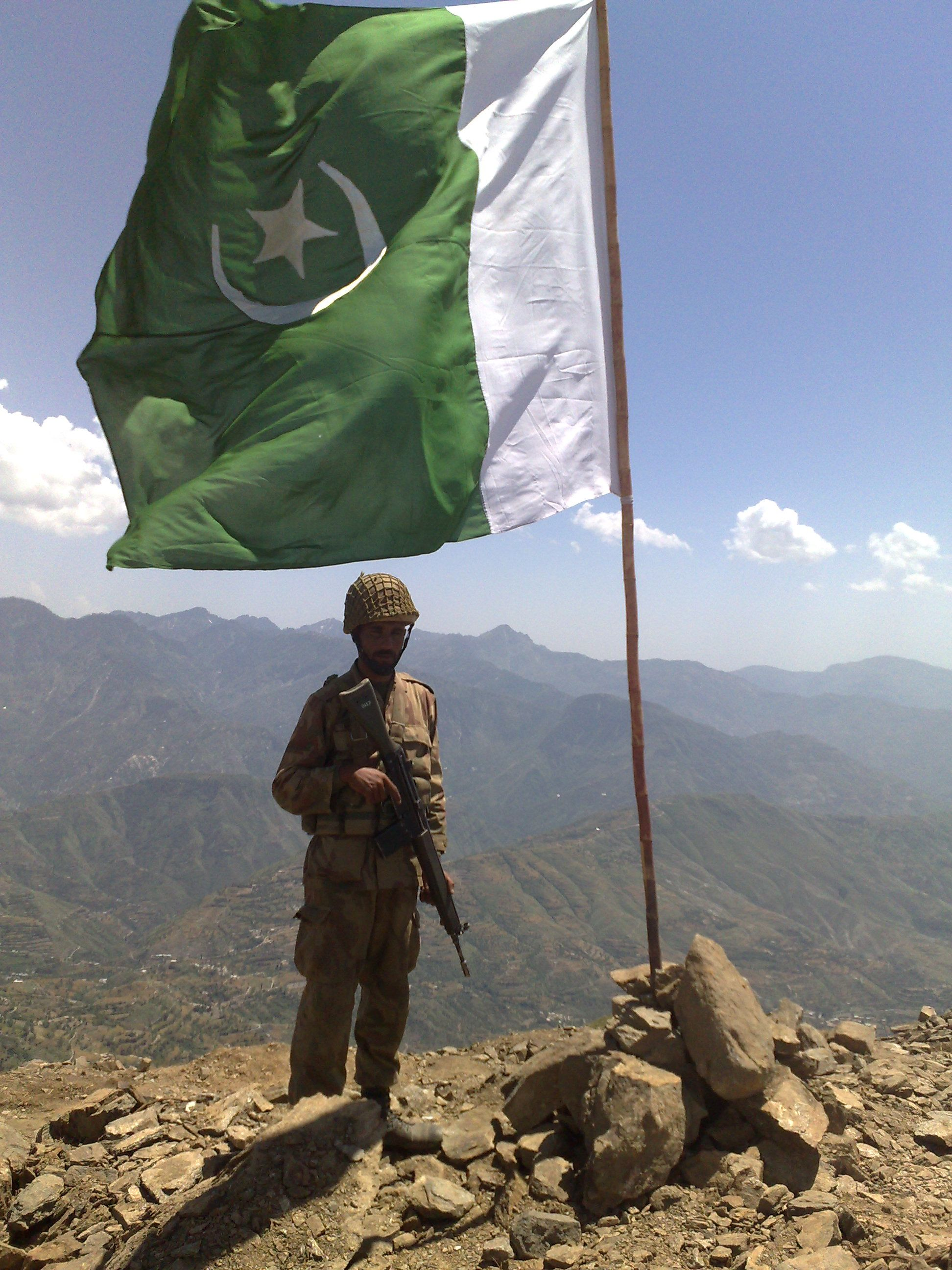 Pakistani forces captured Baine Baba Ziarat, the highest point in Swat valley on May 12, 2009. The image was taken on May 22, 2009.